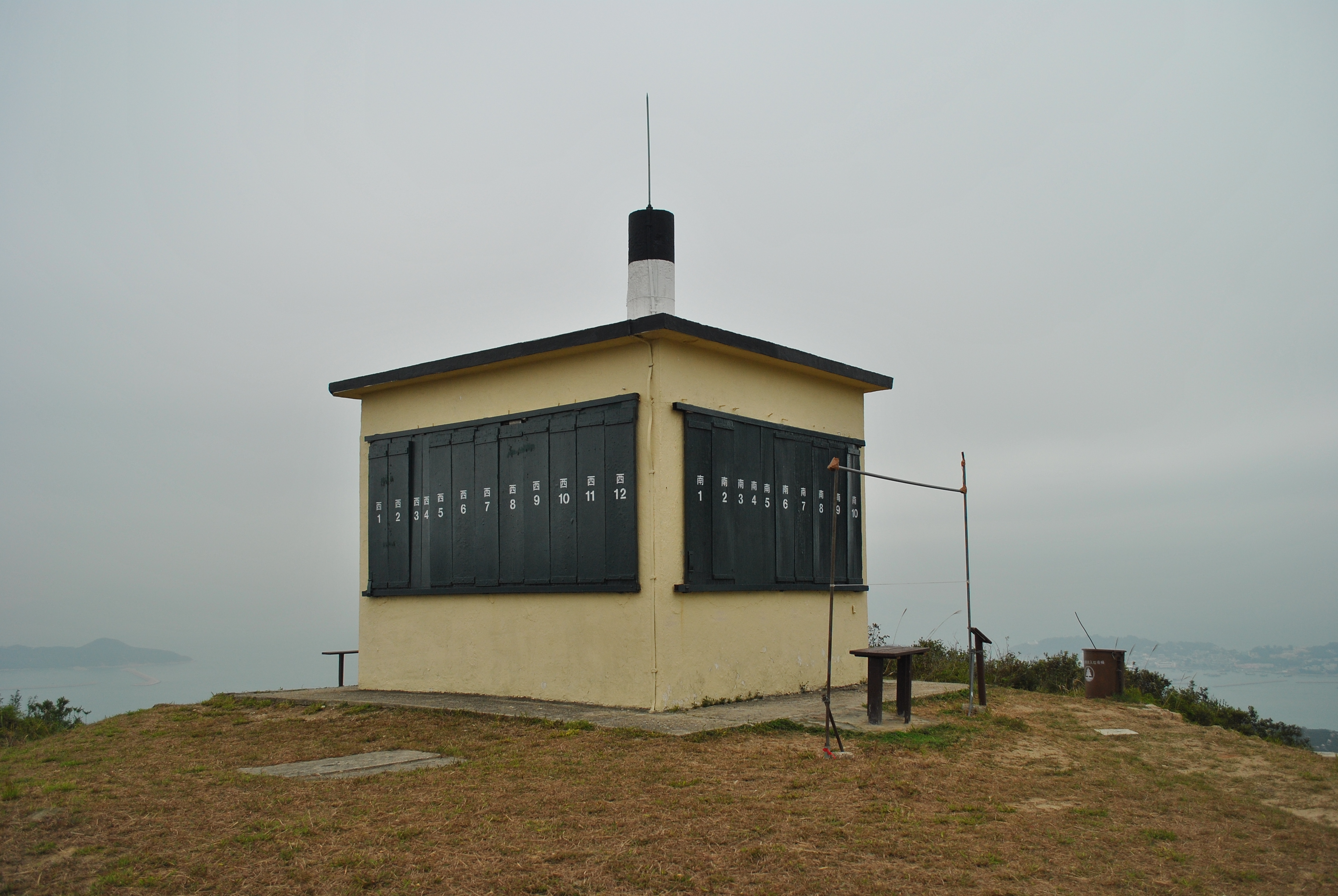 Lo Yan Shan